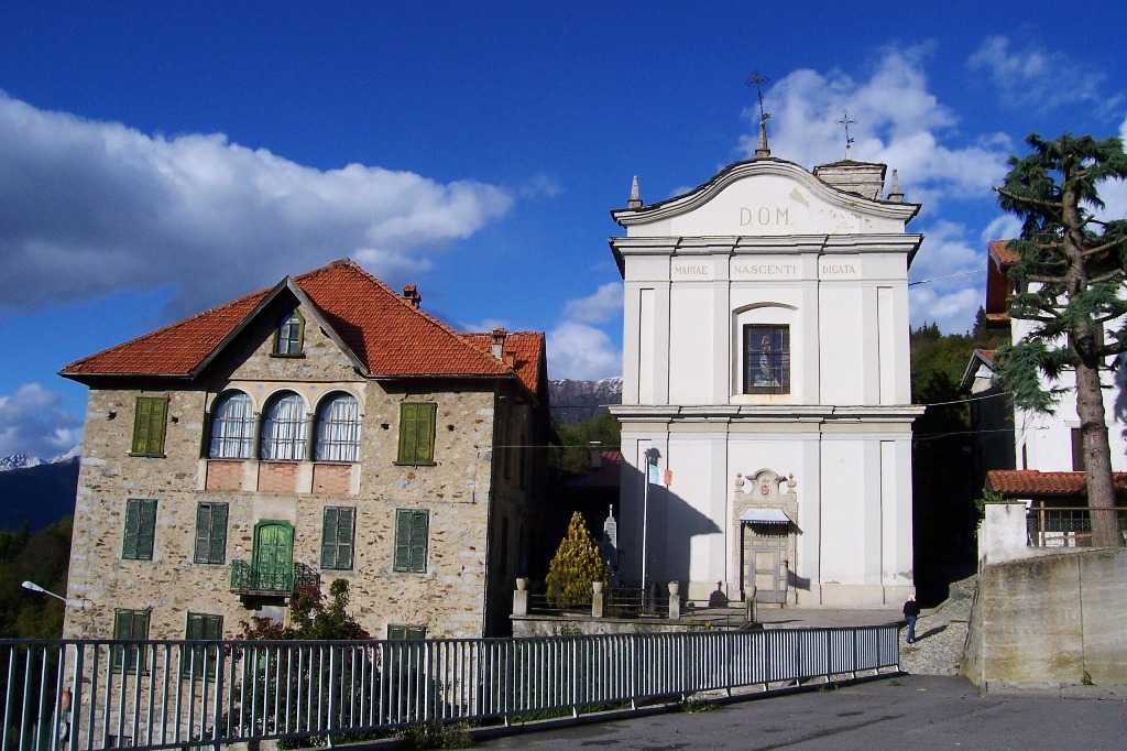 Garda, Val Camonica